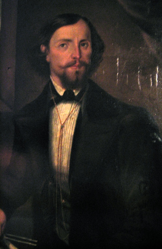 Gheorghe Ucenescu (1830 - 1896)